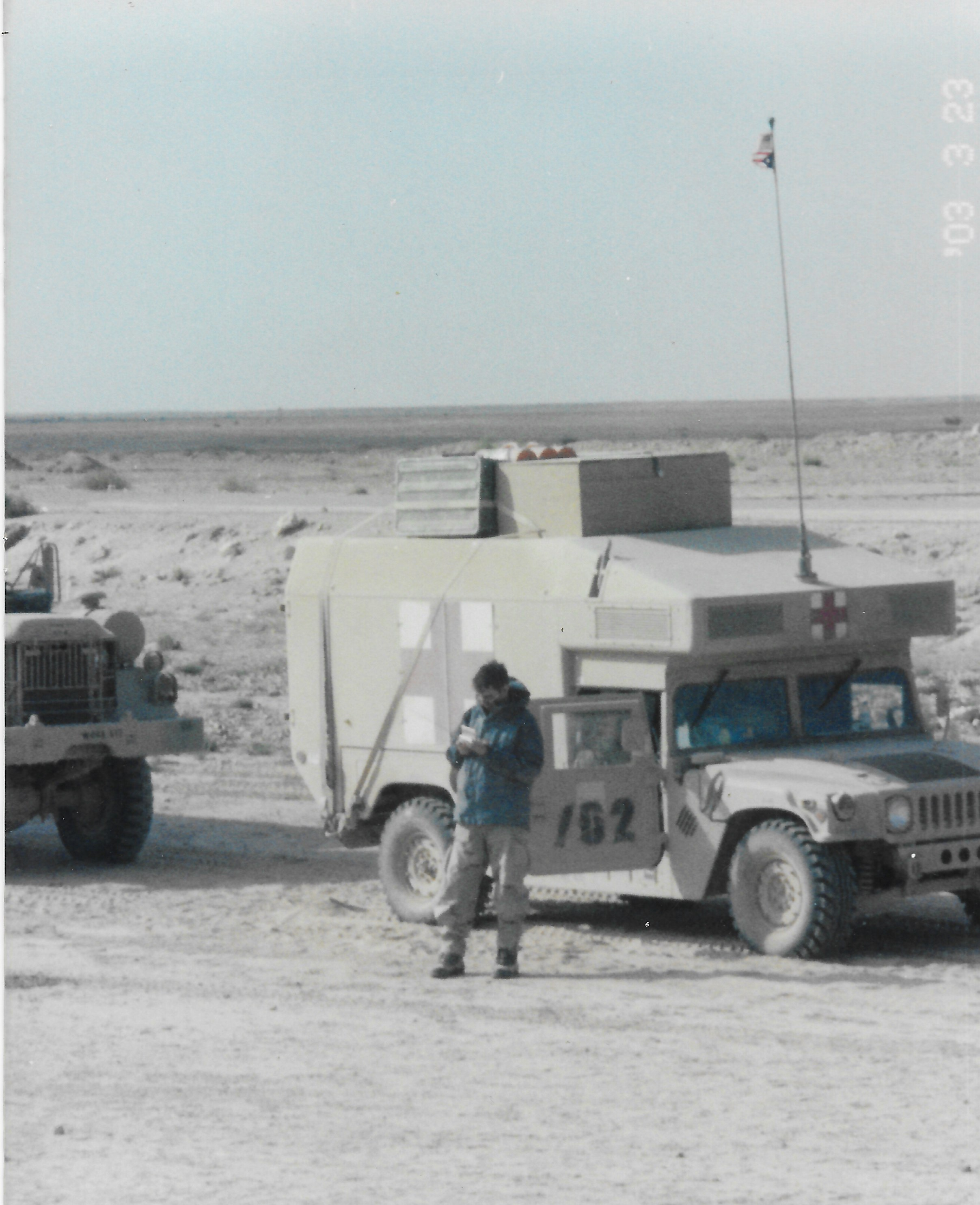 On the way to Baghdad, Julio rode with us for a little bit